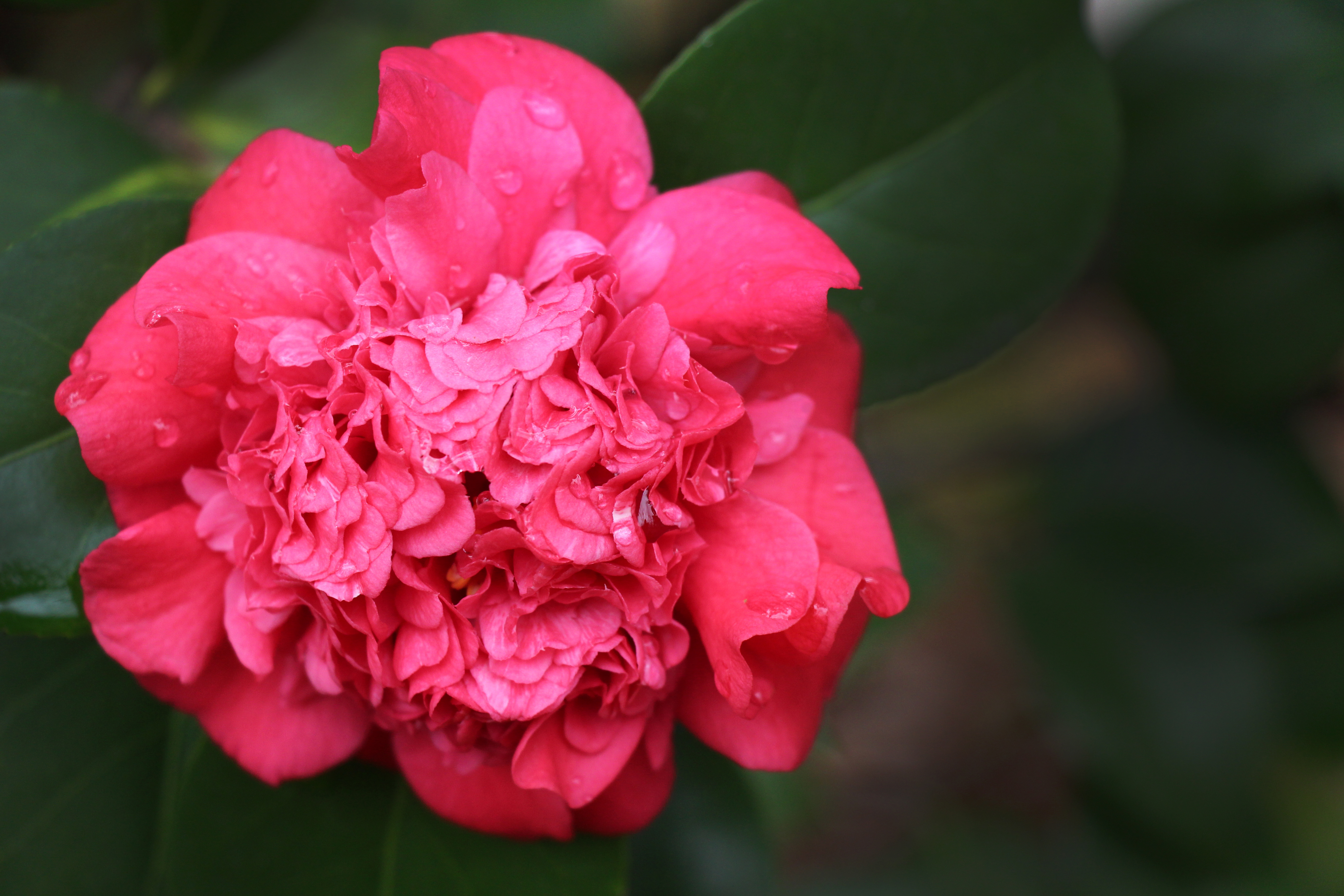 Pinkish red camellia